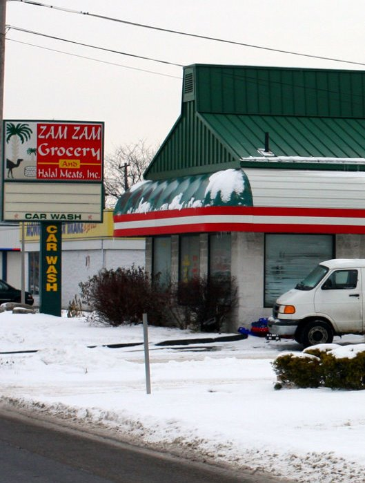 The Somali-owned Zam Zam Grocery and Halal Meats Inc. stores on Morse Road in Columbus, Ohio.